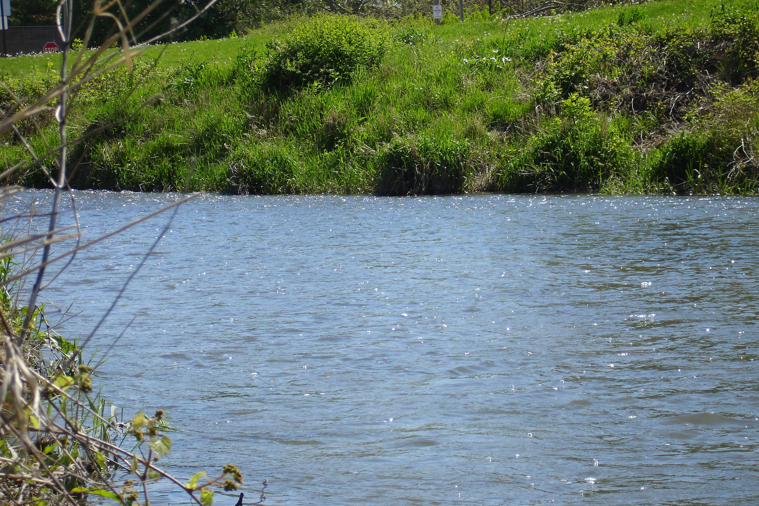 Kishwaukee River in DeKalb, Illinois, May 2006